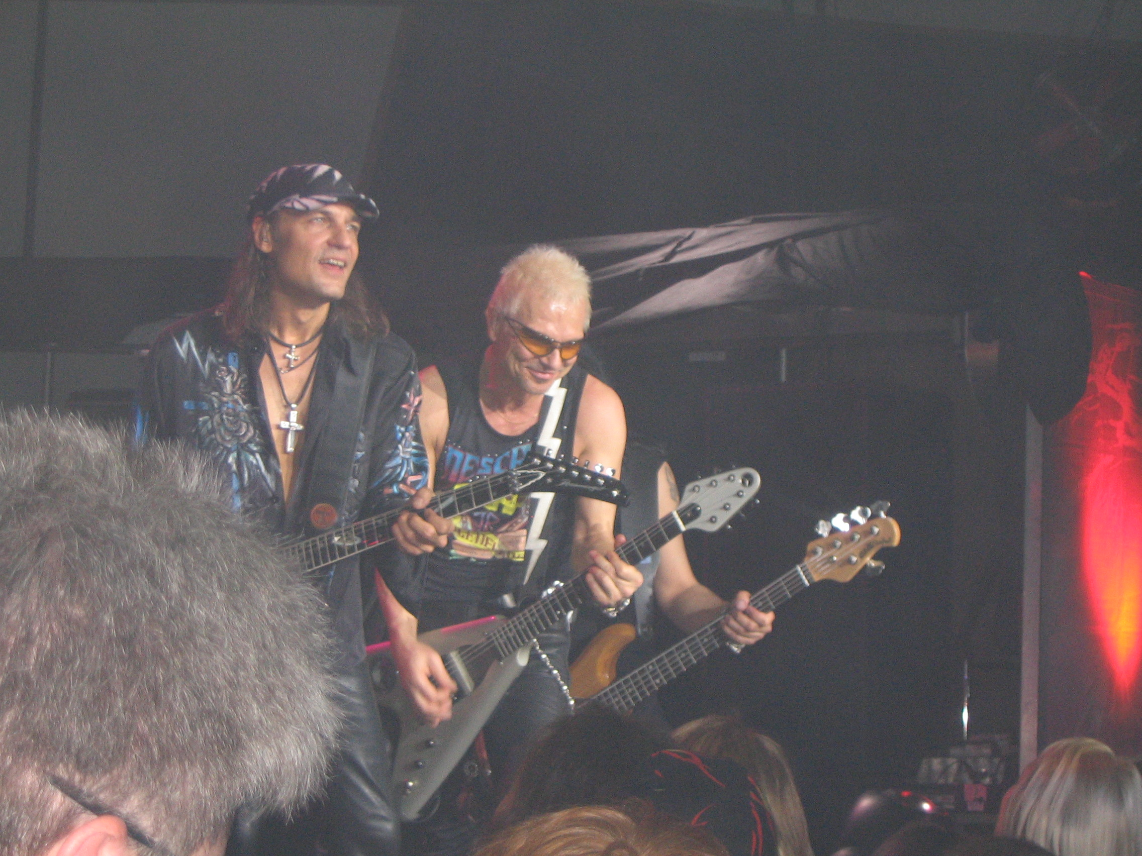 Matthias Jabs, Ralph Rieckermann (not to see) and Rudolf Schenker of Scorpions.Scorpions-22